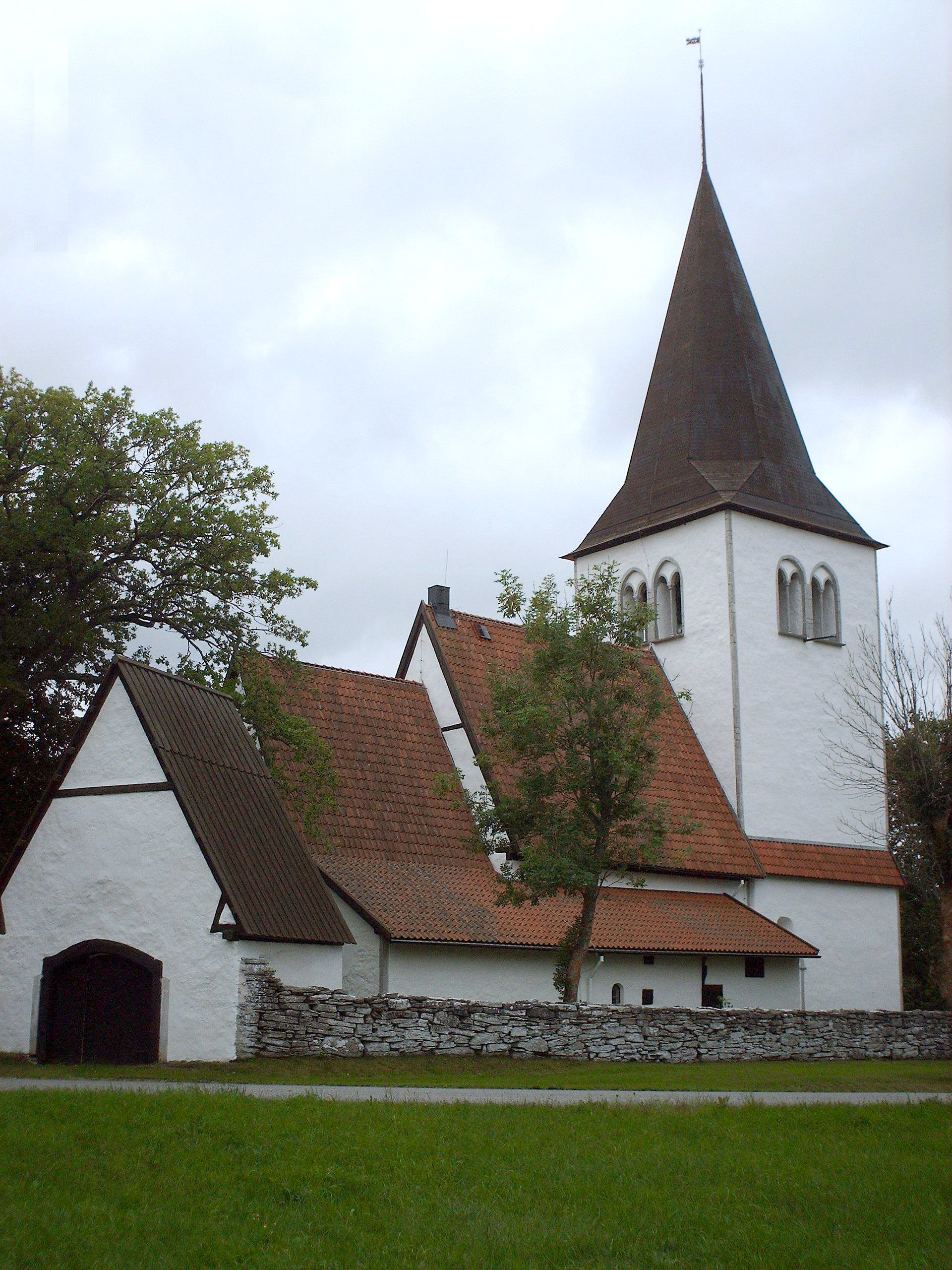 Hall Church, Gotland, Sweden